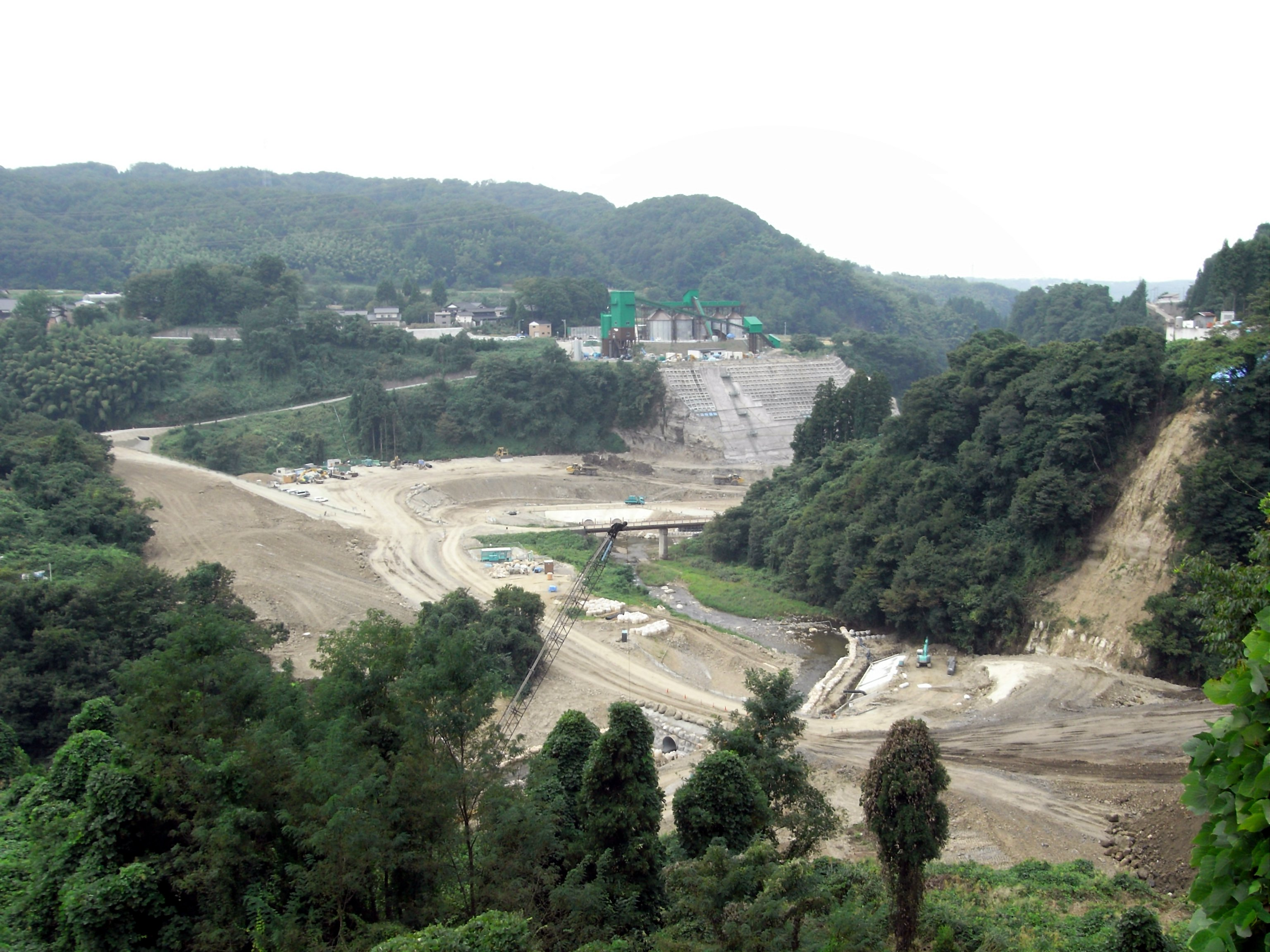 Tatsumi Dam(Saigawa river/Ishikawa Pref./Japan)